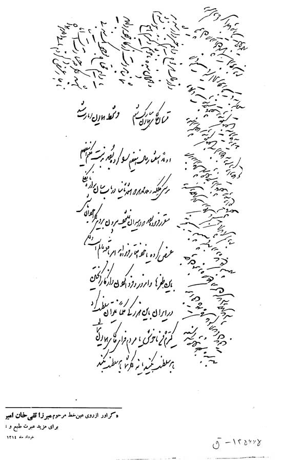 A letter with printmaking footnotes of the Amir Kabir handwriting which was sent to Nasereddin Shah based on the King procedural mistake in government [G 135665]